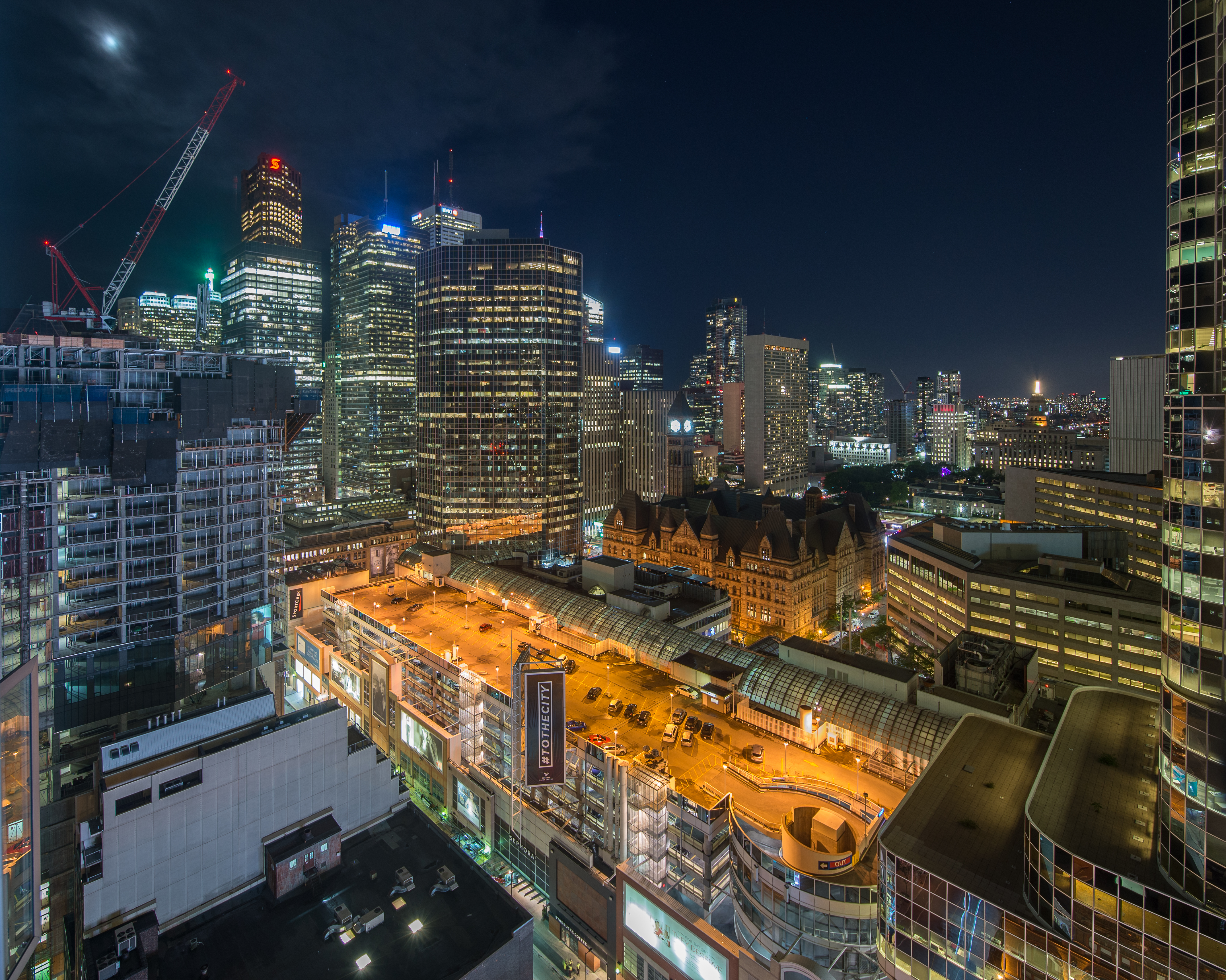 Toronto financial district and the old city hall. View from Pantages Tower.